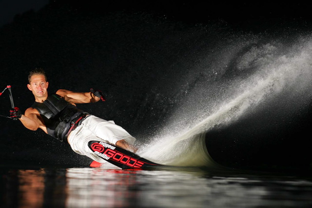 Tremendous shot of Thomas Degasperi in a night session